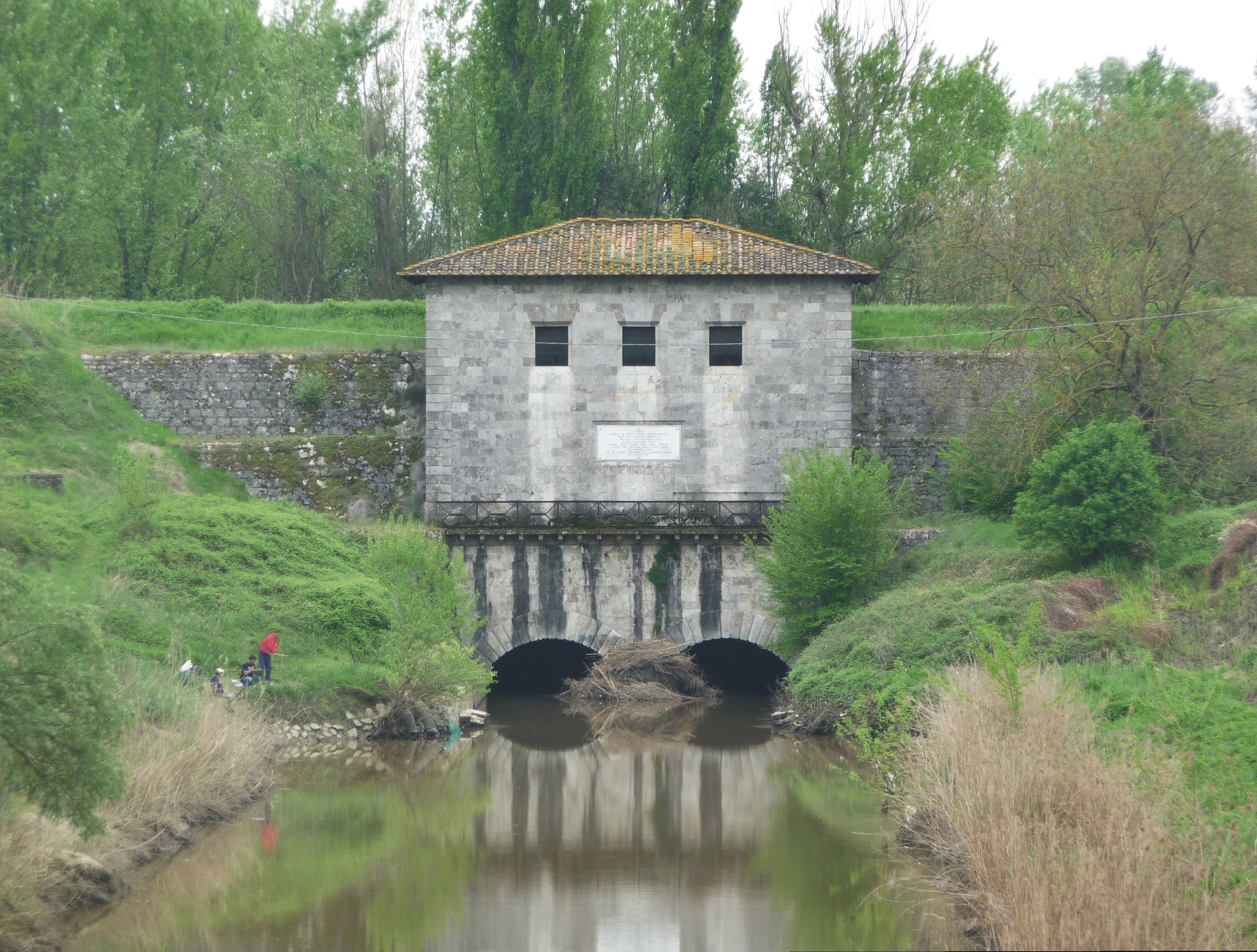 La Botte, hydraulic work by Alessandro Manetti (1787-1865), ca. 1859, Vicopisano, Province Pisa, Tuscany, Italy